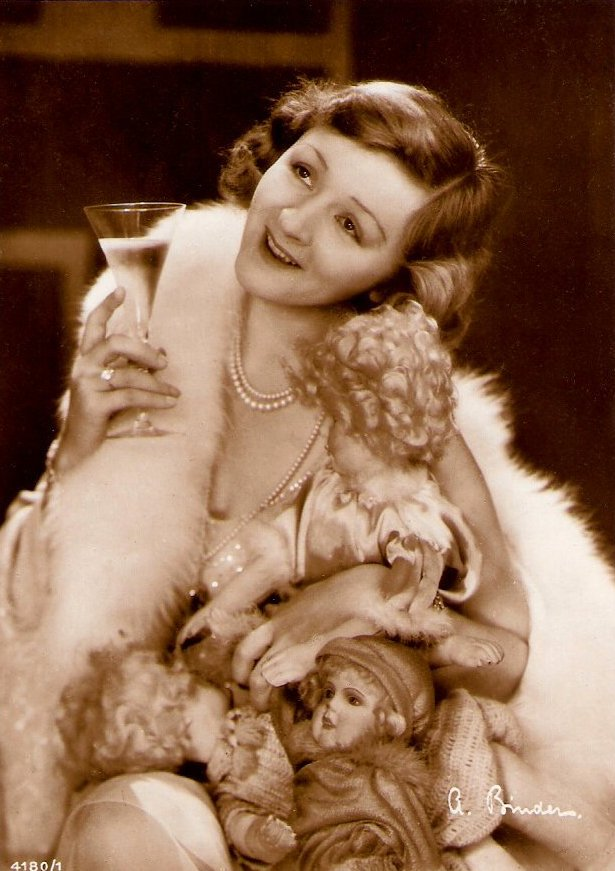 Lya Mara